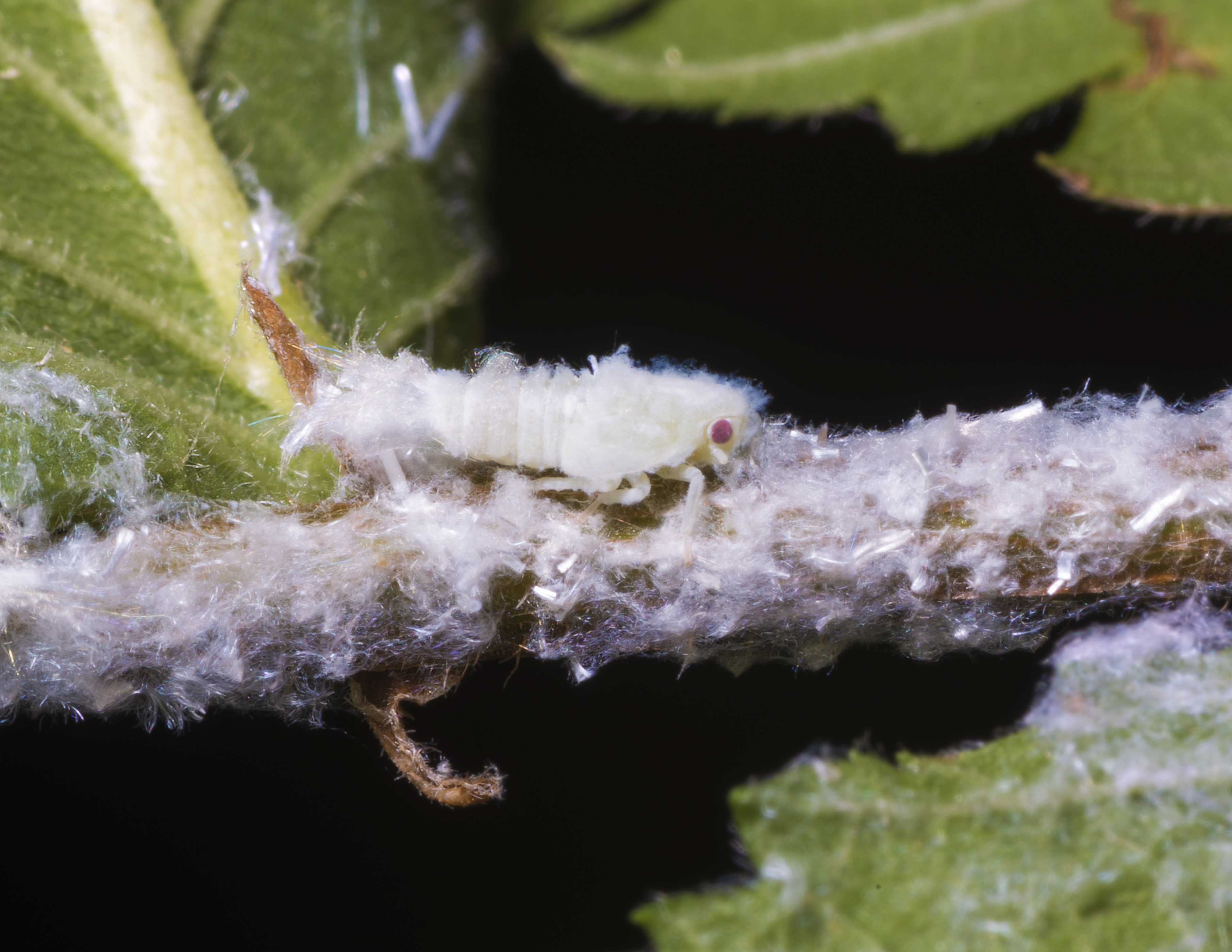 Larva of Flatid Planthopper, Size 5mm